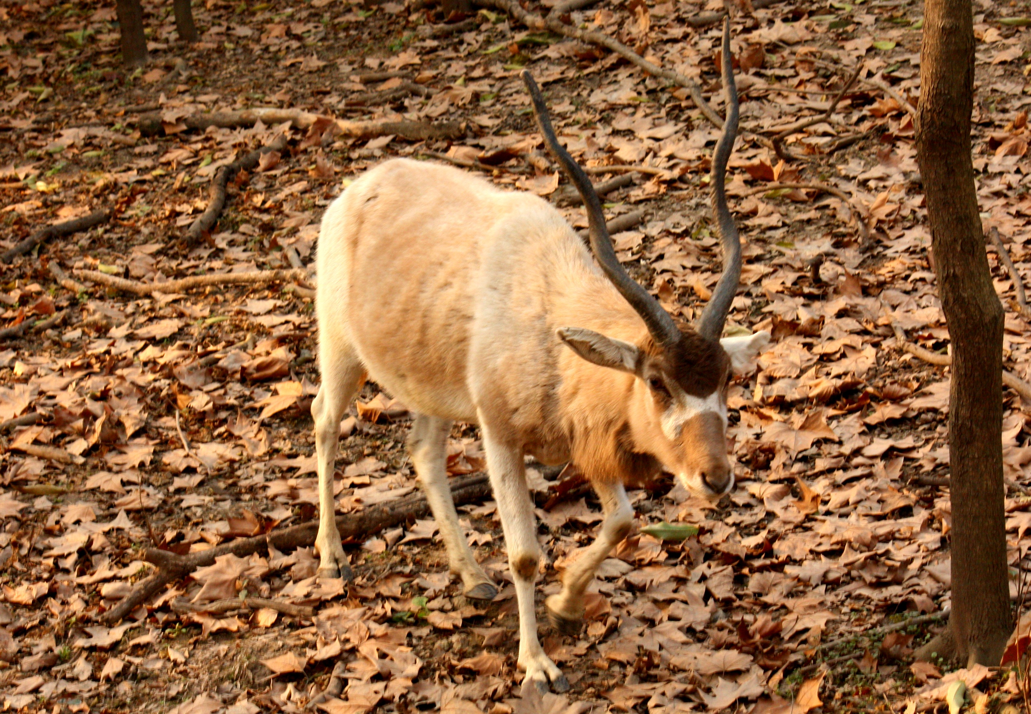 Addax in Shanghai Zoo